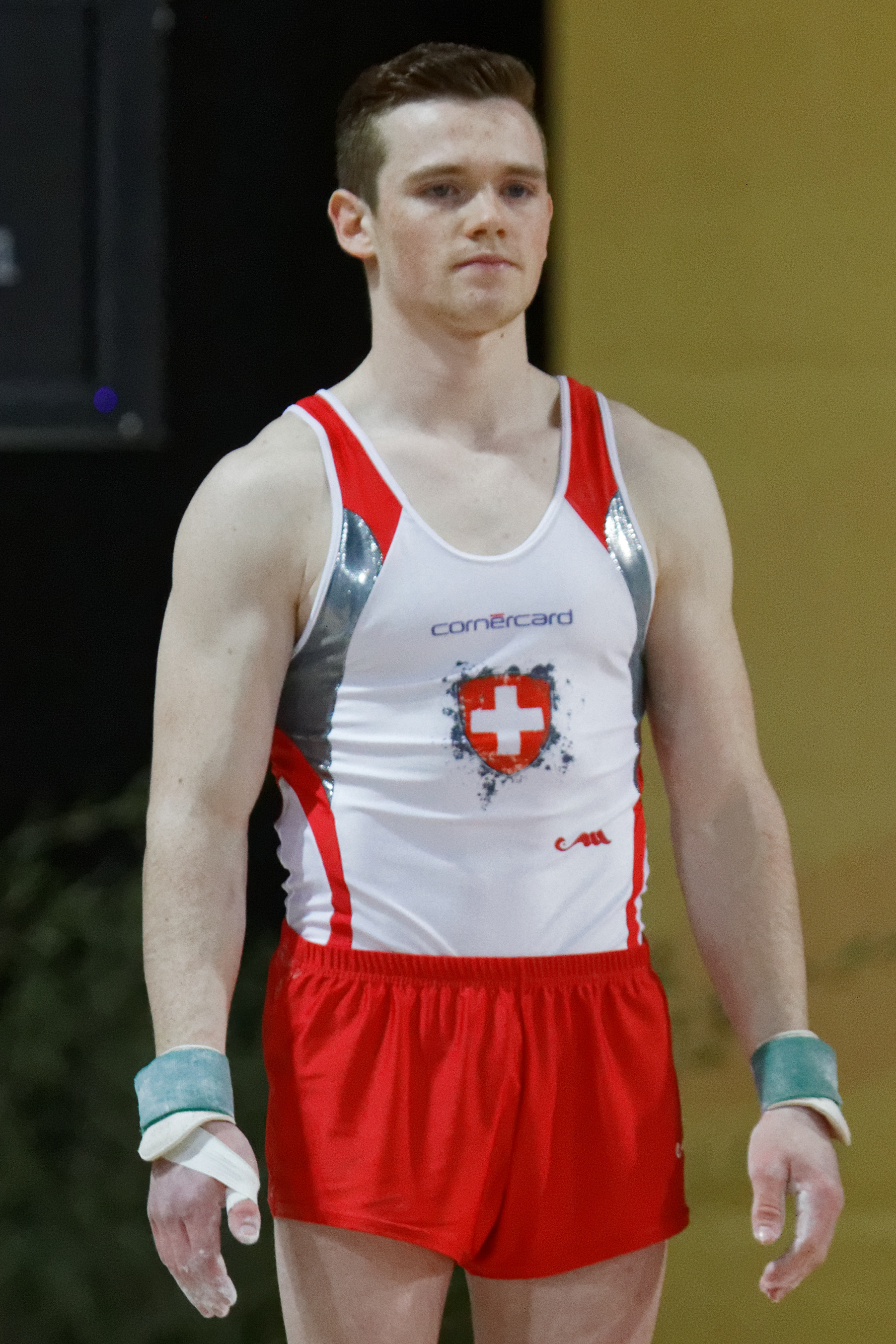 2015 European Artistic Gymnastics Championships. Men's Vault Final.